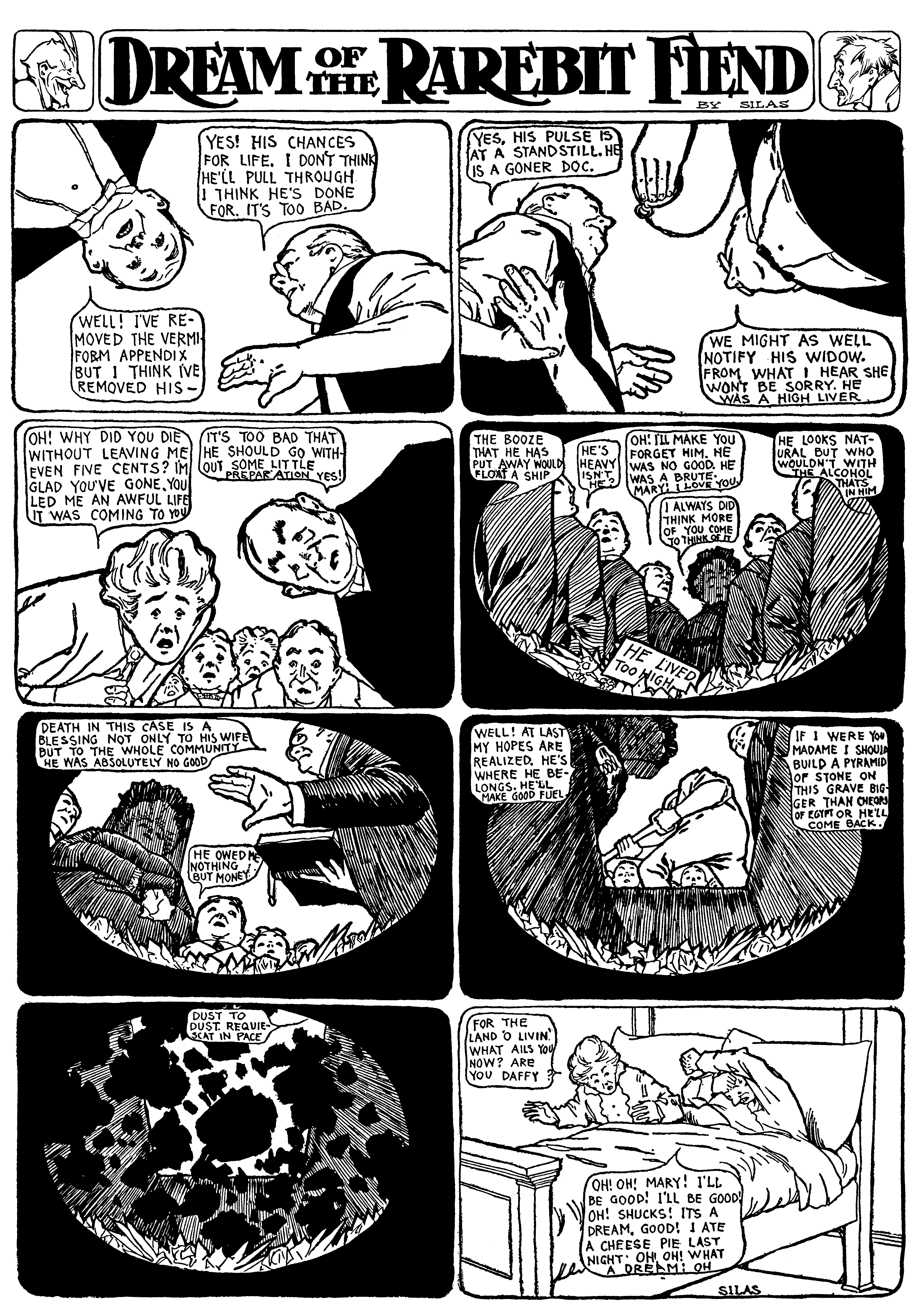 Dream of the Rarebit Fiend episode from 1905-02-25 by Winsor McCay